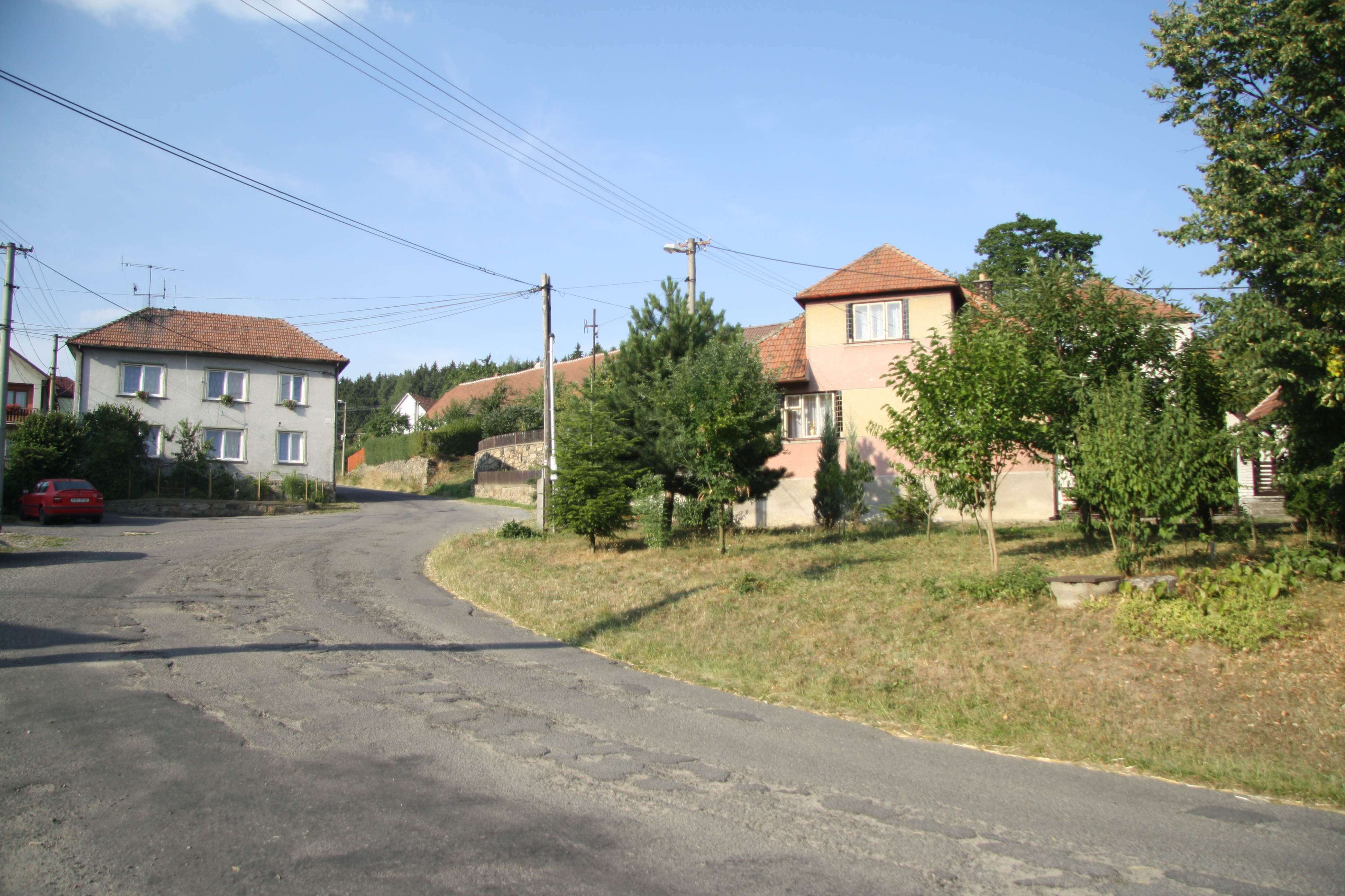 Center of Lhotky 2, Velké Meziříčí, Žďár nad Sázavou District